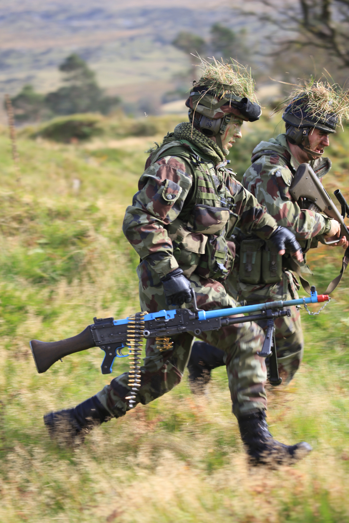 RDF Assessement Training Ex in Glen of Imal including avisit to troops by Maj Gen Ralph James DCOS ops